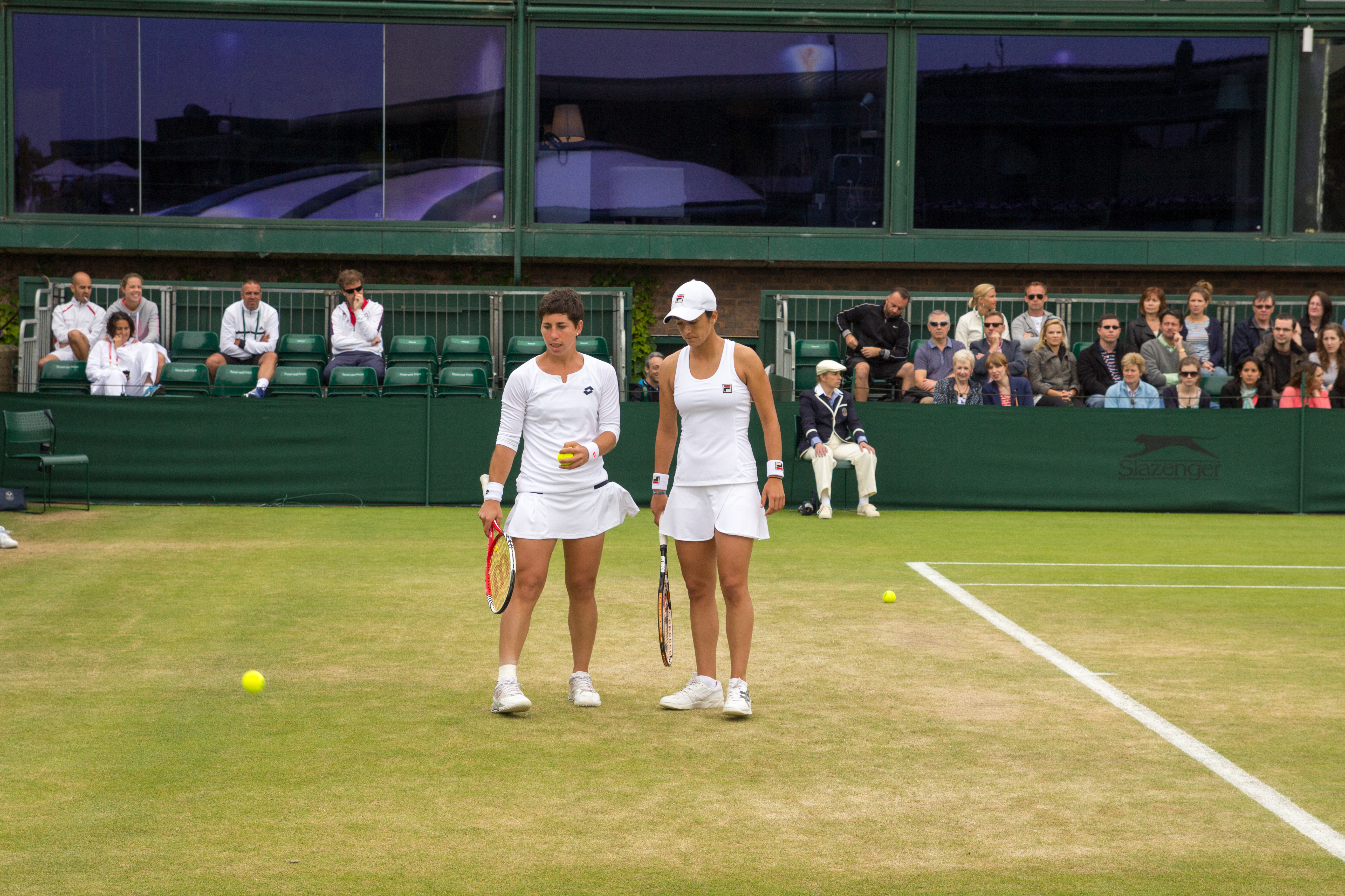 Carla Suarez Navarro and Sílvia Soler Espinosa at Wimbledon 2013